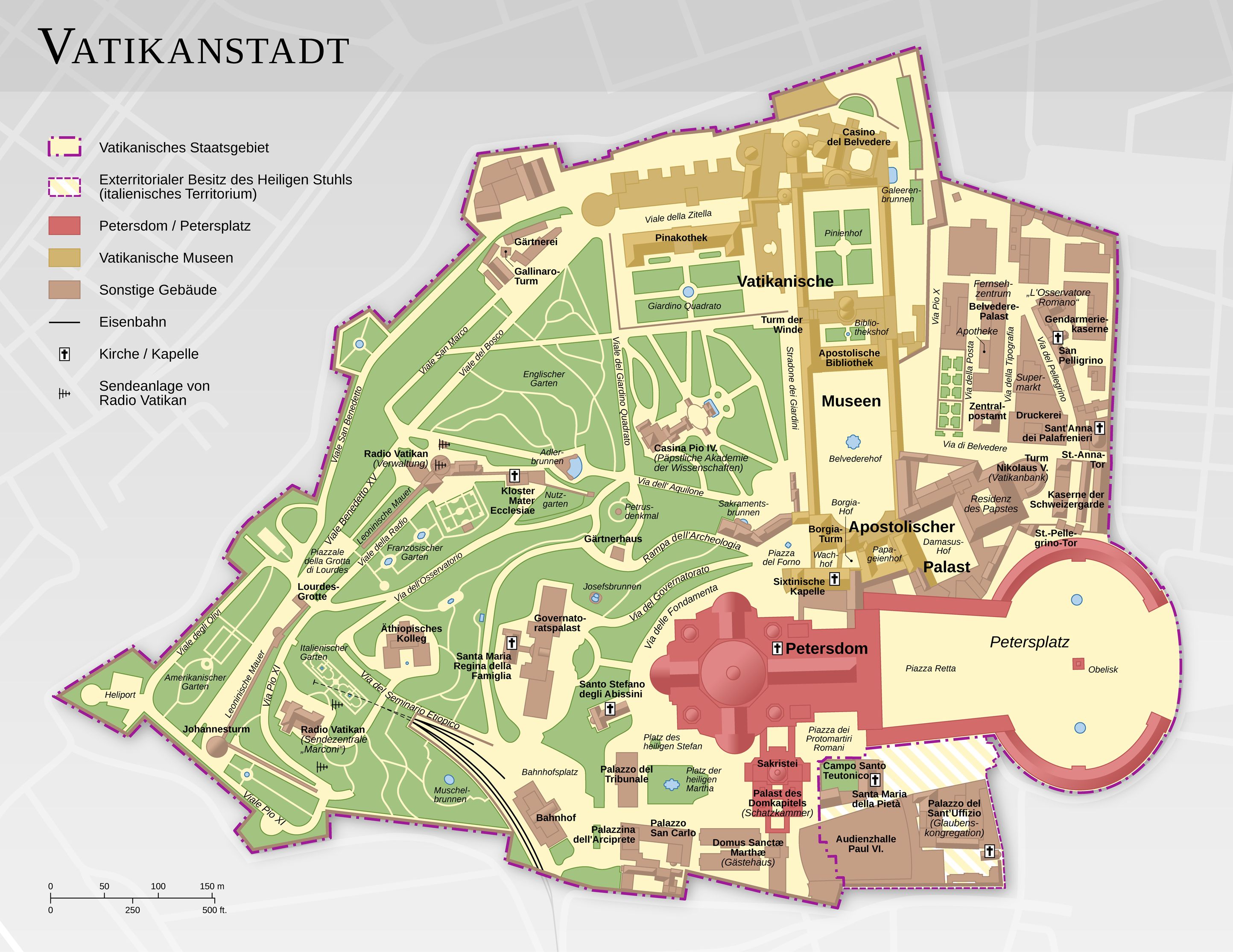 Map of the Vatican City (German version)